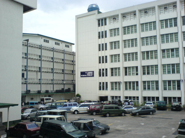 PODCIT quadrangle and parking area at University of the East, Metro Manila, Philippines